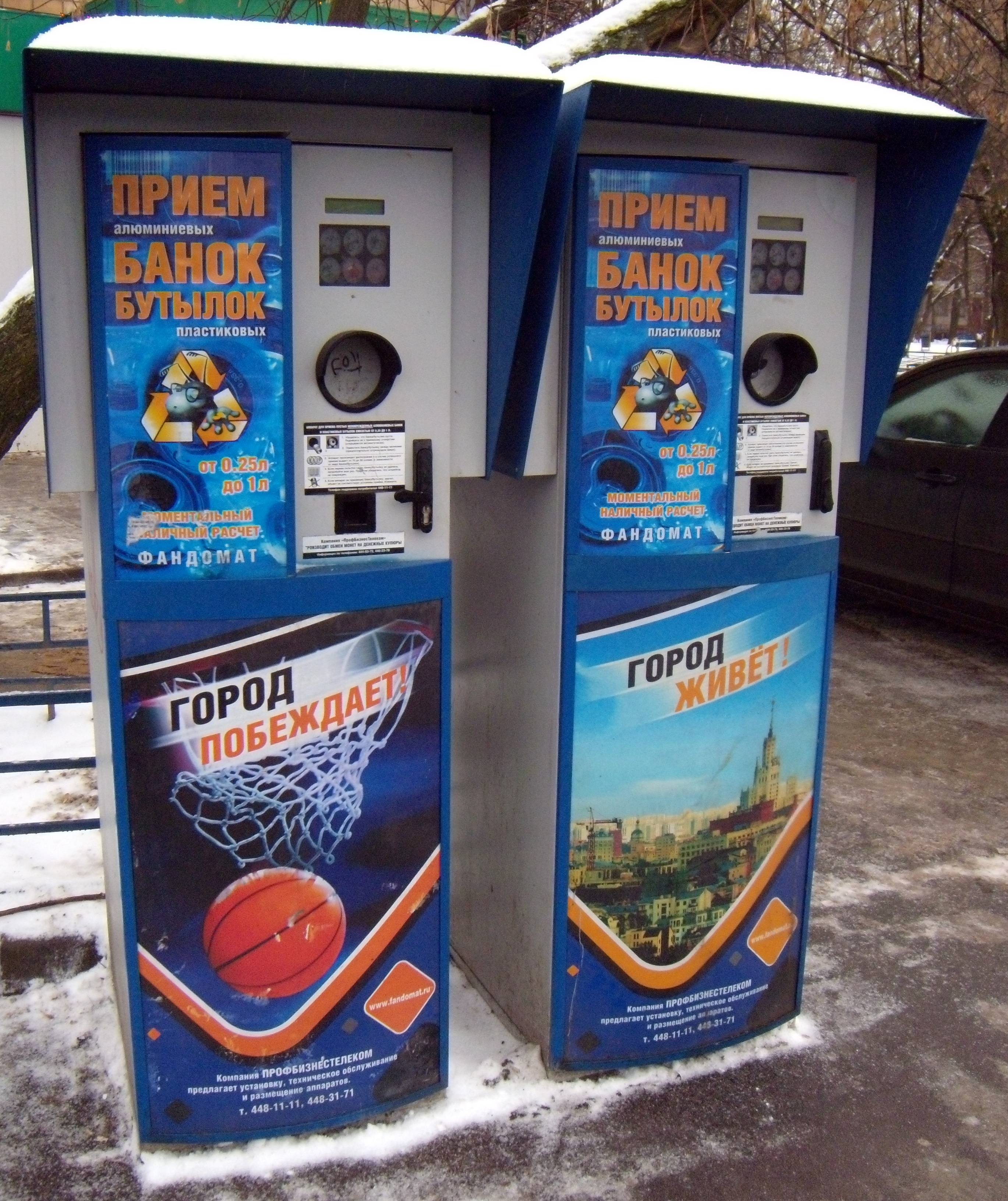 Reverse vending machine in Moscow, Russia.